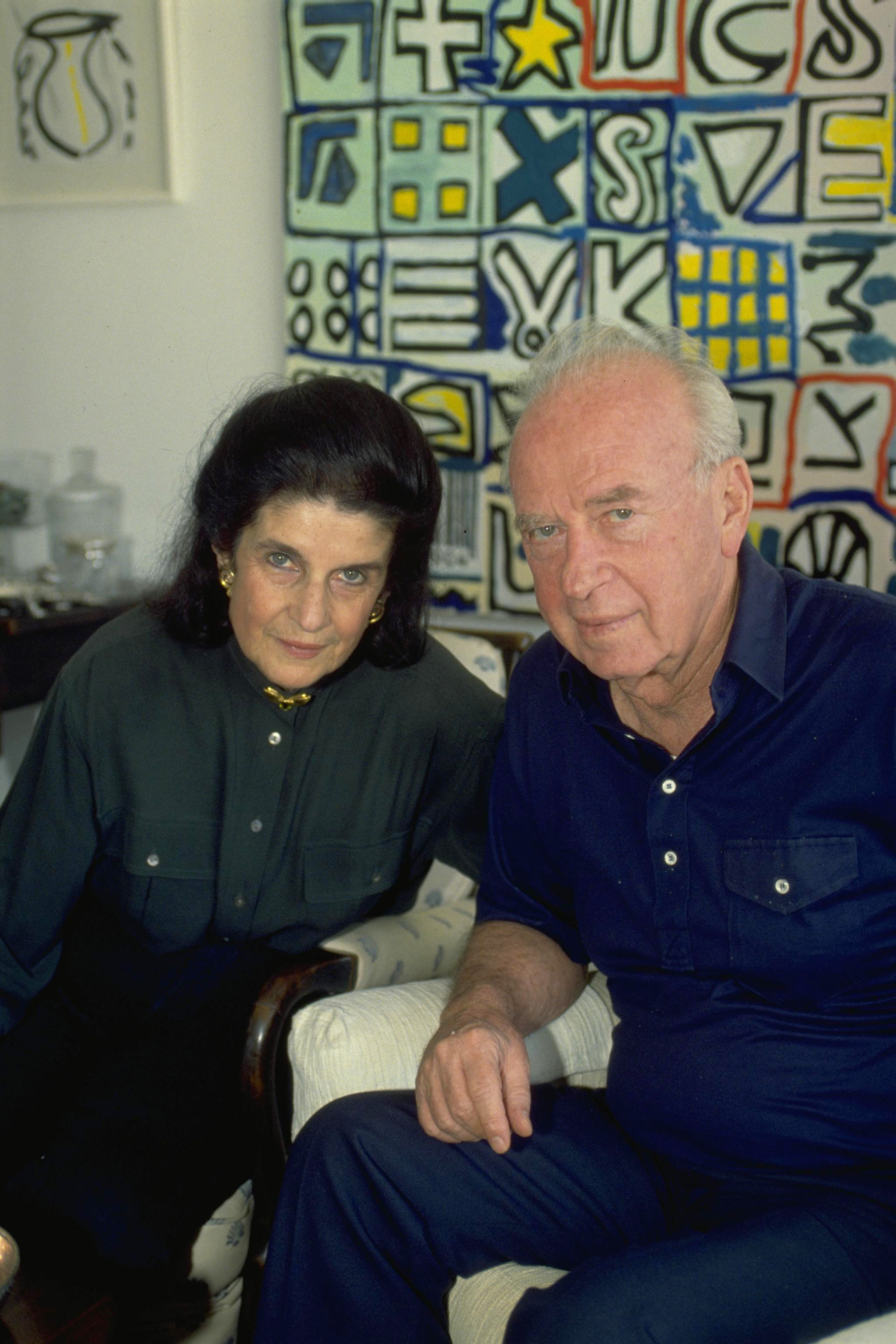 Prime Minister Yitzhak Rabin and Mrs. Lea Rabin. יצחק רבין ורעייתו לאה רבין. Photo: Moshe Milner (1946–) Alternative names Miylner, Moše; Milner, Mosheh; Moshé Milner; Milner, M.; Mîlner, Moše; Miylner, MošehDescriptionIsraeli photographerצלם ישראליDate of birth 1946 Location of birth Germany Authority control : Q28750411 VIAF: 100999744 ISNI: 0000 0001 0804 0507 LCCN: n82072104 GND: 115699732 BNF: 15548788n WorldCat creator QS:P170,Q28750411 , GPO, 14/11/1992.